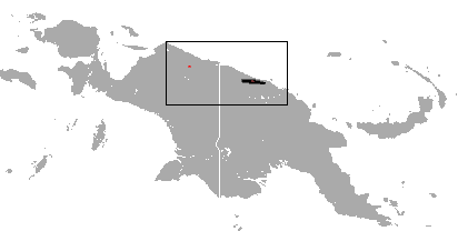 Golden-mantled Tree Kangaroo (Dendrolagus pulcherrimus) range (red — extant, black — extinct)